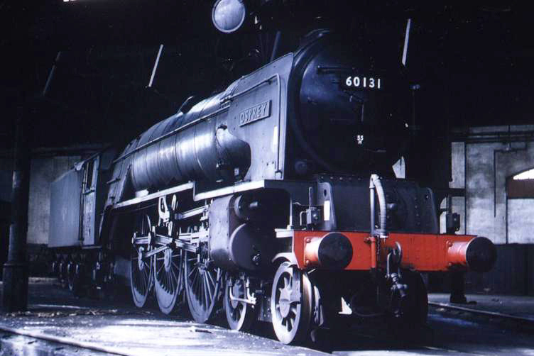 LNER Peppercorn Class A1 4-6-2 locomotive 60131 "Osprey" at Leeds Neville Hill loco shed